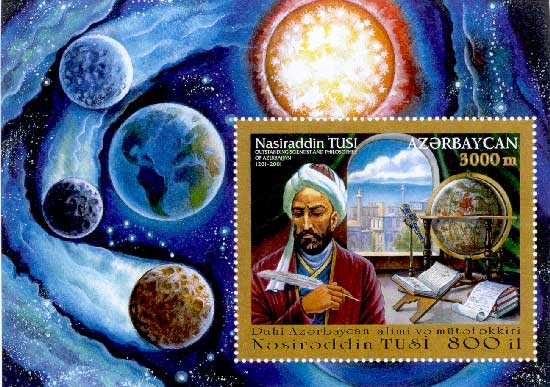 A portrait of Nasraddin Tusi, a great Azerbaijan philosopher, mathematician, astronomer.